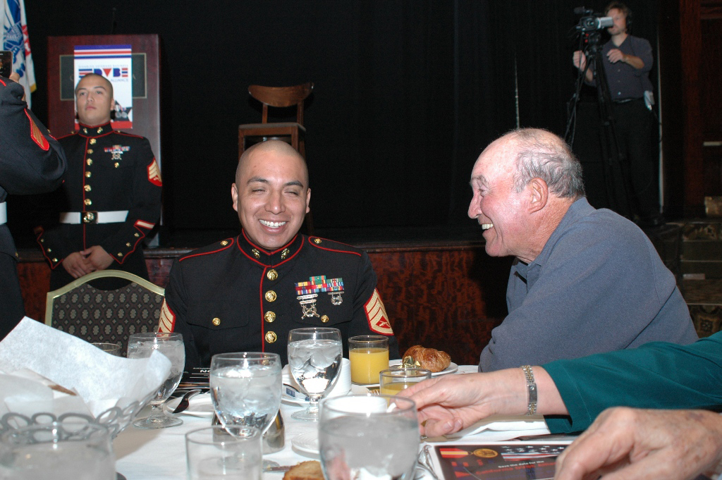 Staff Sgt. Nicolas Perez, a recruiter with Recruiting Station Los Angeles, laughs with actor Joe Santos at a Veterans Day breakfast hosted by the California Disabled Veterans Business Alliance, Nov. 6, in Los Angeles. The event brought past, present and future service members together.